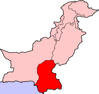 Situation de la Province du Sind